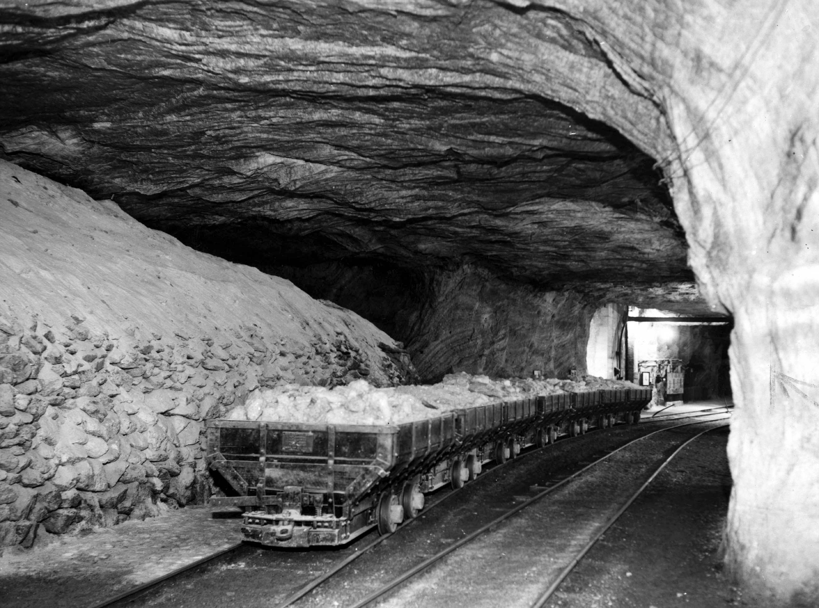 Salt in cars on train tracks underground in a Carey Lyons salt mine License on Flickr (2010-12-30): CC-BY-2.0